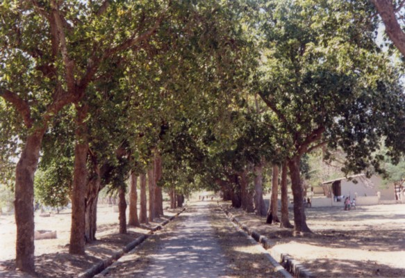 Photo by J. Patrick Fischer Street in Lautém/Timor-Leste on 24th June 2002